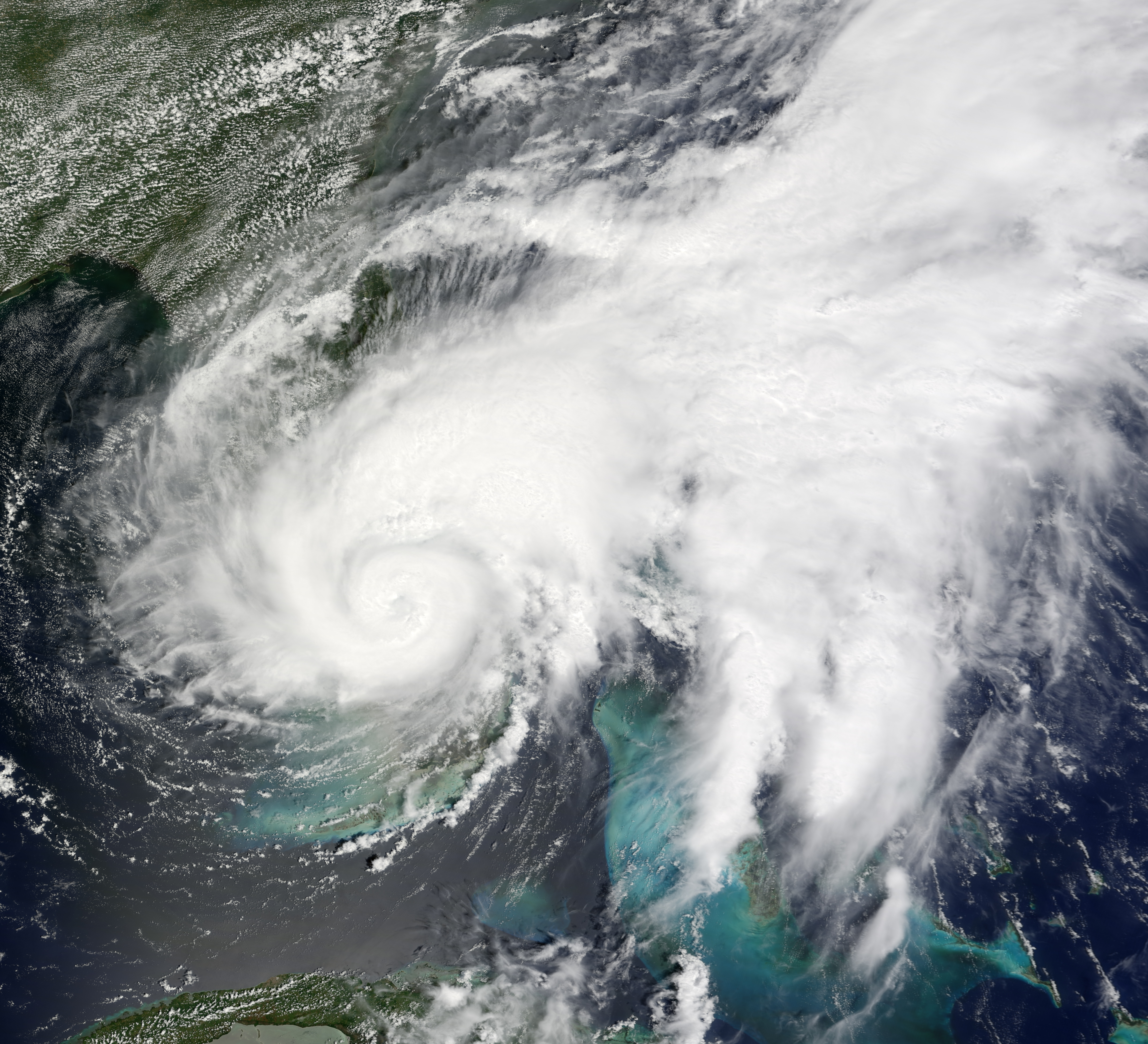 Tropical Storm Fay (2008) as seen from Terra Satellite on 2008-08-19